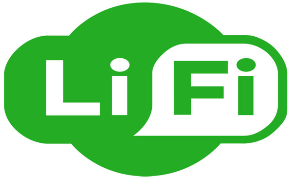 lifi logo image